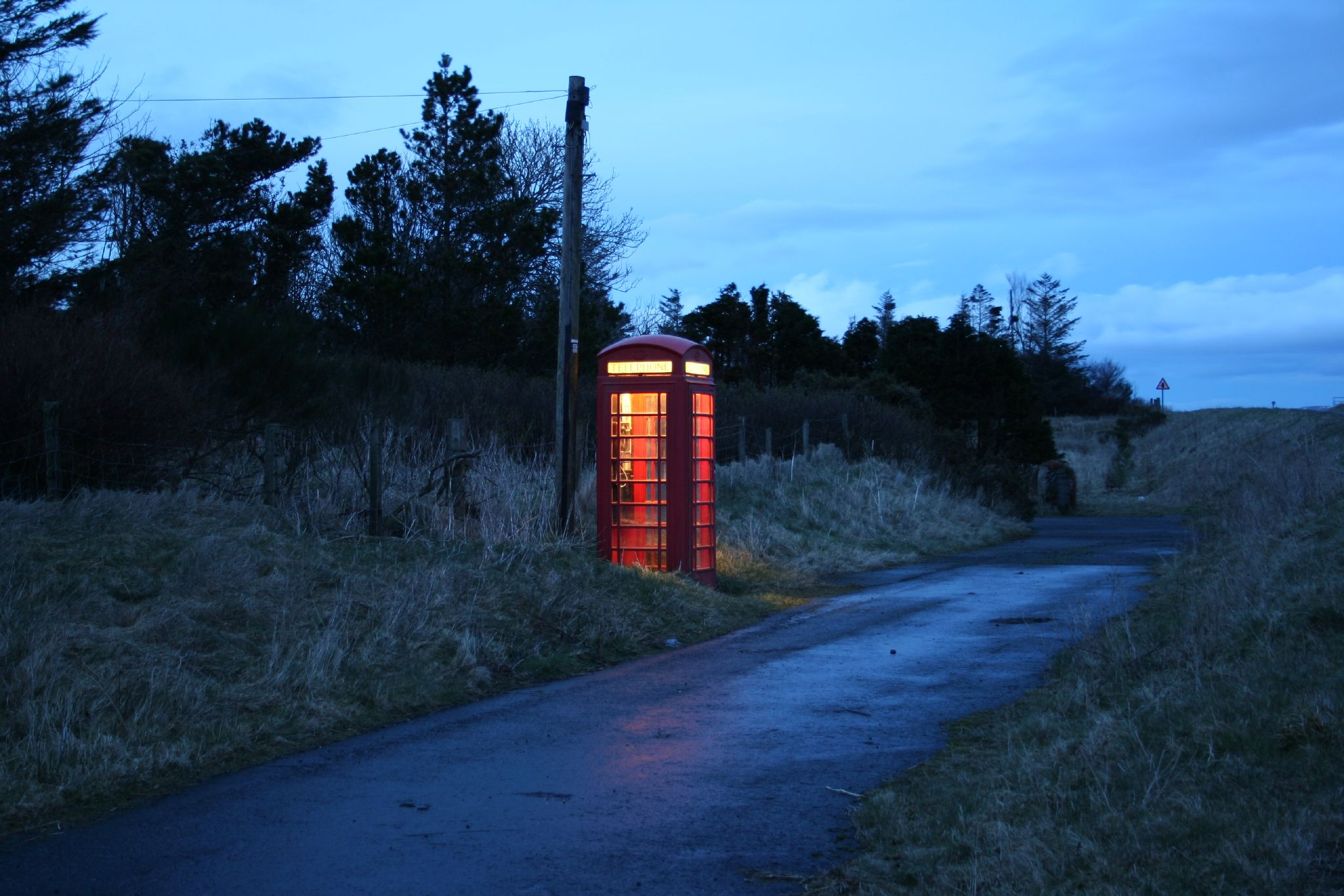 Skye - telephone cell. Scotland.